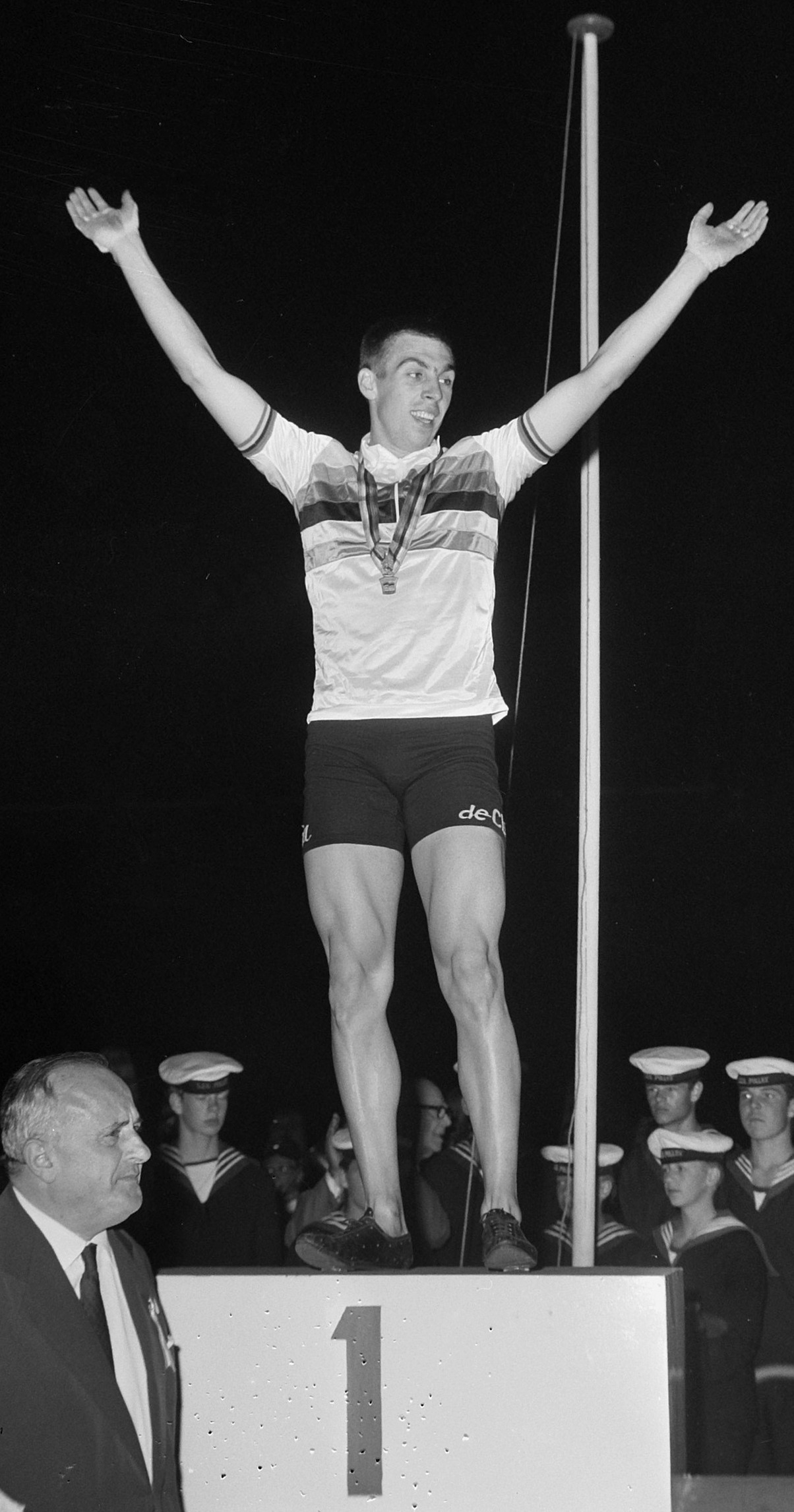 WK Wielrennen op de baan sprint profs finale. Sercu op erepodium